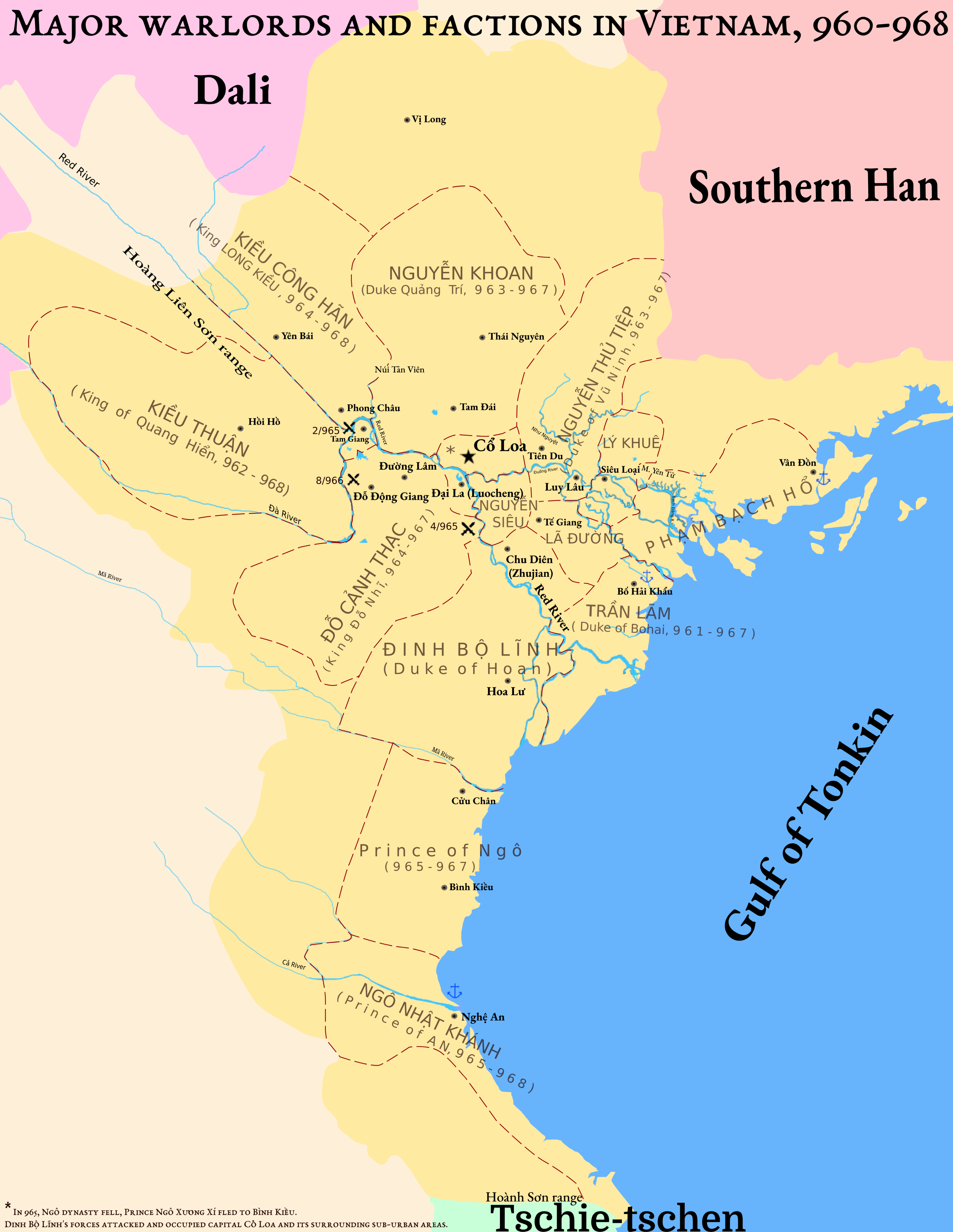 Map: Anarchy of T welve warlords Vietnamese civil war, 960-968.